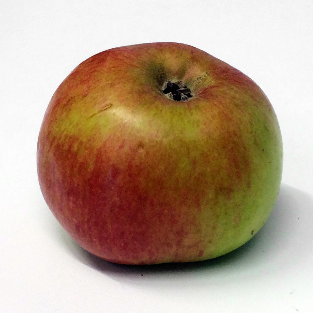 Apple of the cultivar Cox’s Pomona, photographed in conjunction with the Apple Festival at Nordiska museet, Stockholm, Sweden in September 2014.